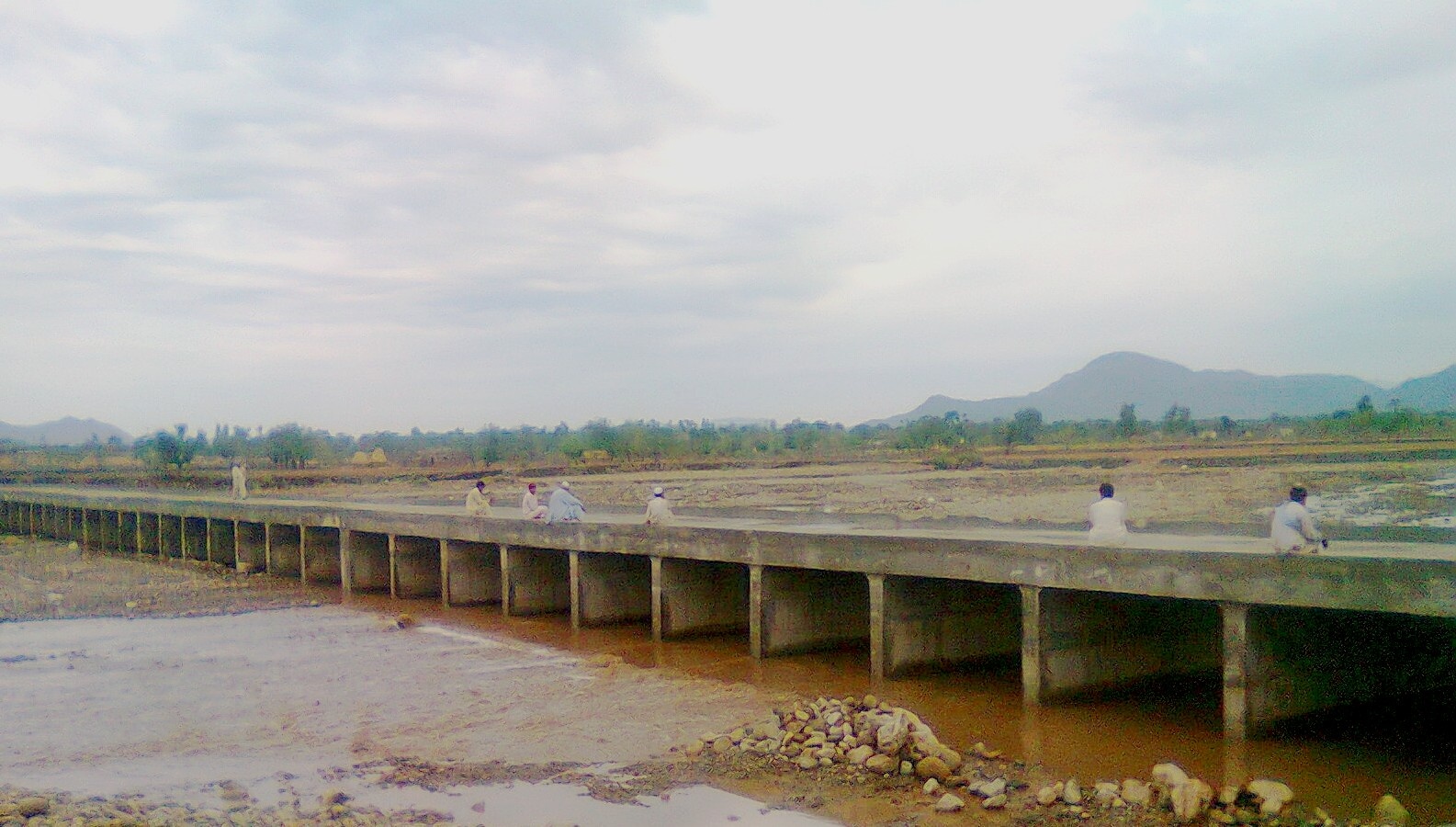 photo